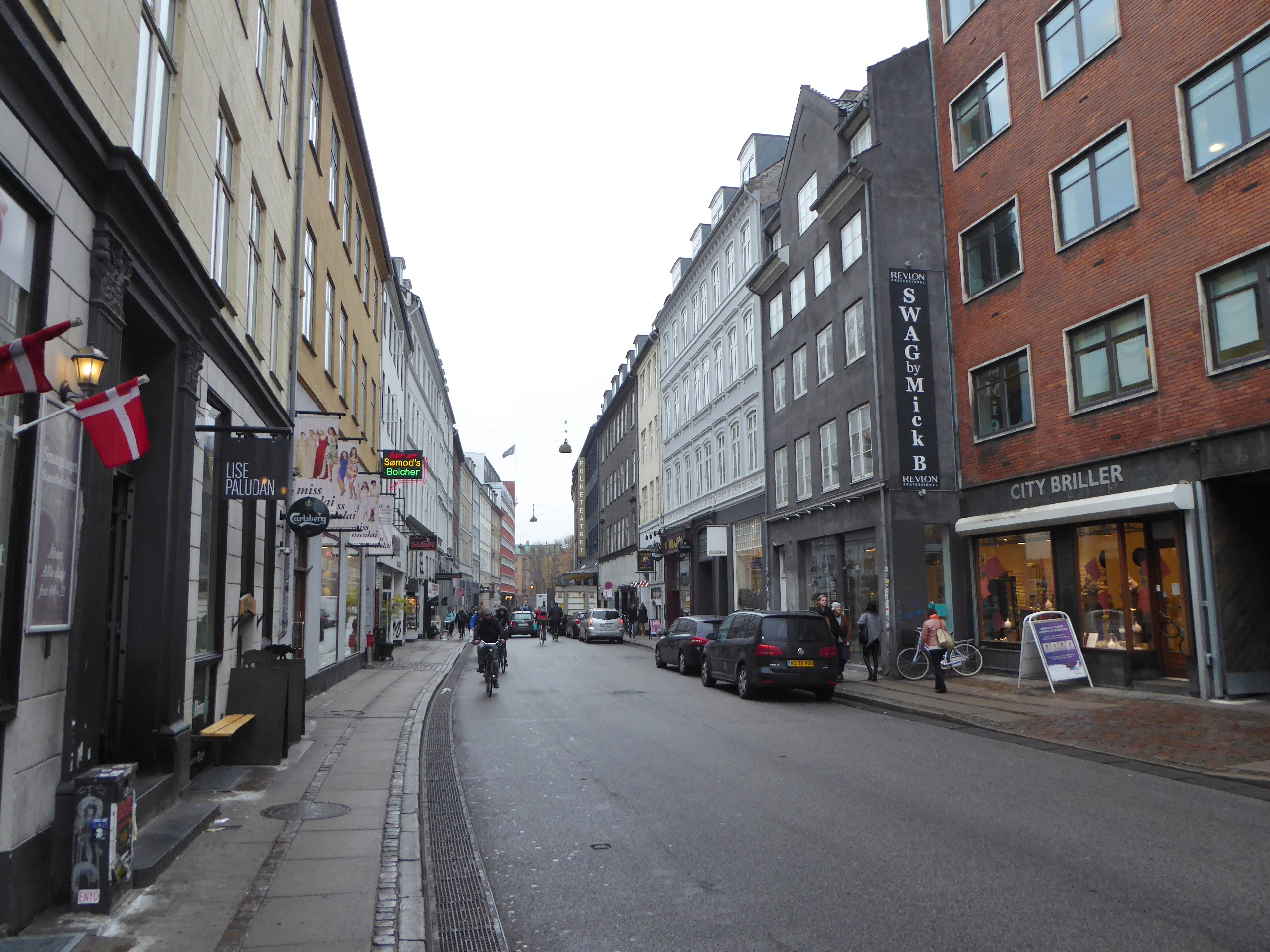 The street Nørregade in Indre By in Copenhagen.